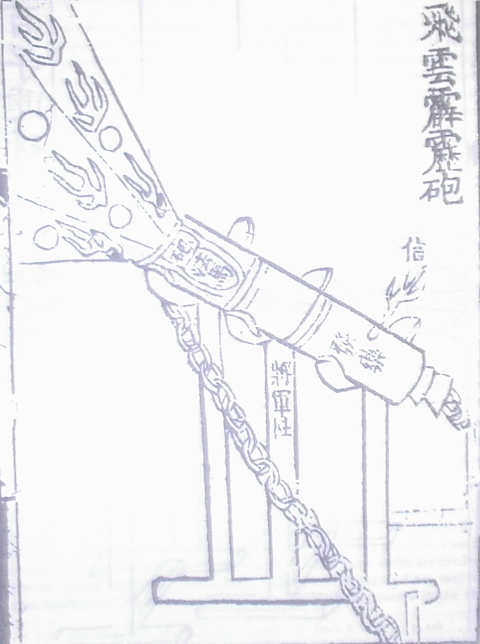 A 14th century illustration of a Chinese cannon, or eruptor, which fired proto-shells as cast iron bombs. This illustration was featured in the 14th century military treatise of the Huolongjing, edited and compiled by Liu Ji and Jiao Yu, with the preface added in 1412. This specific cannon was called the "flying-cloud thunderclap eruptor" (feiyun pilipao). The smaller shells did not have an exact fit with the bore, but a kind of wad or cradle for the is shown. This illustration also appears on page 266 of Joseph Needham's book Science and Civilization in China: Volume 5, Part 7.